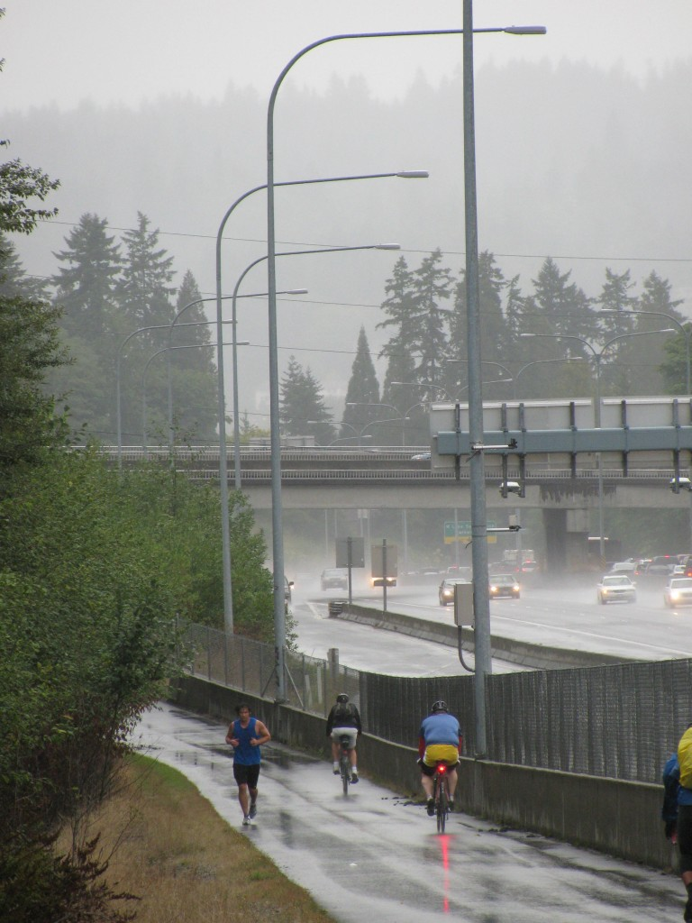 rainy day bike path interstate 520 redmond washington